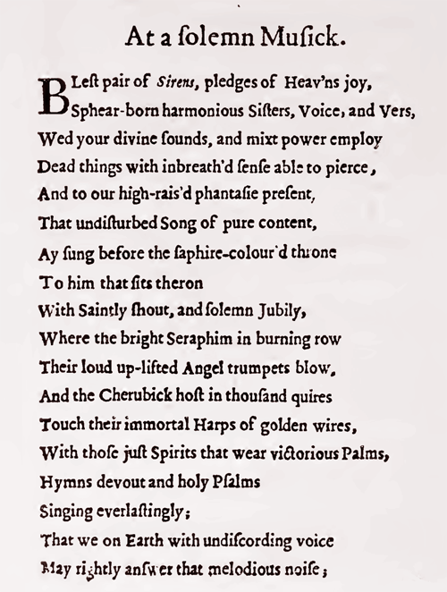 Scanned page of 1645 edition of John Milton's poems. Published by Humphrey Moseley, London. The poem, "At a solemn Musick" was used by Hubert Parry for his choral work Blest Pair of Sirens